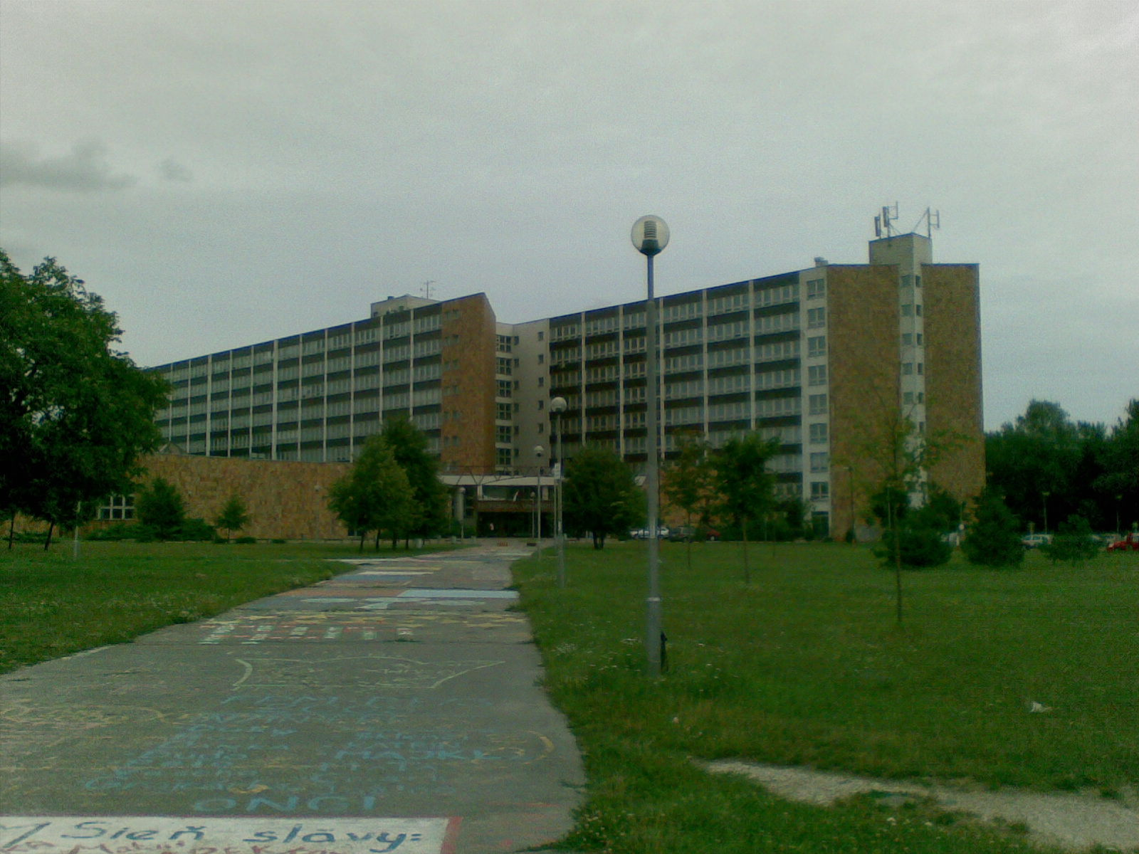 University of Economics, Bratislava, Slovakia